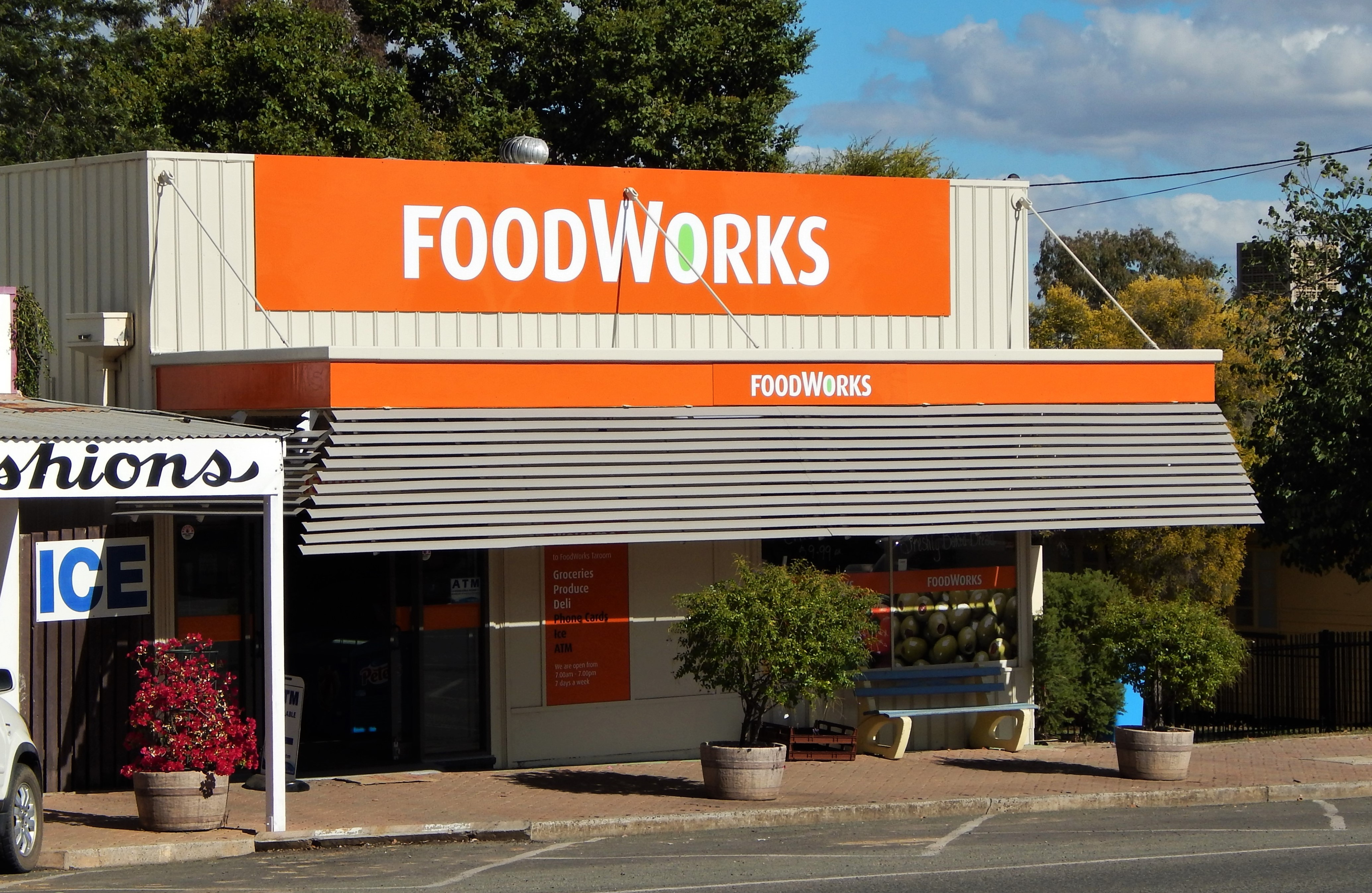 The local FoodWorks supermarket in Taroom, Queensland